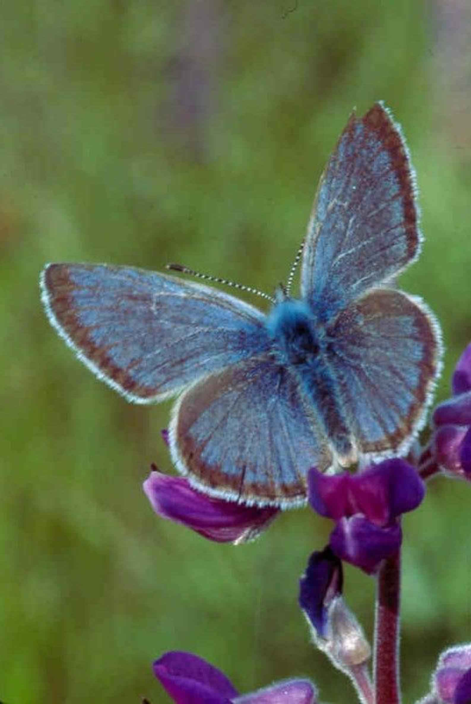 A male Fender's blue Butterfly (Icaricia icarioides fenderi), which is an endangered species of butterfly. The largest remaining populations of this species currently exist in Baskett Slough National Wildlife Refuge in the U.S. State of Oregon.